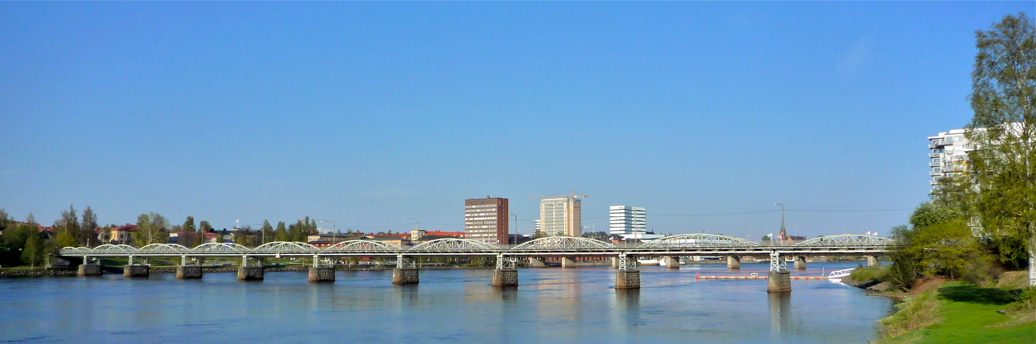 "Old bridge" in central Umeå, photographed from southwest